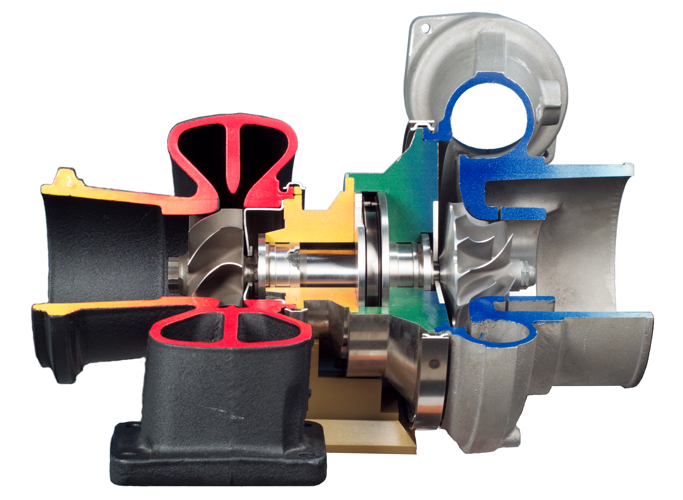 Turbocharger cutaway used for many aerospace power and propulsion applications. Made by Mohawk Innovative Technology, Inc.